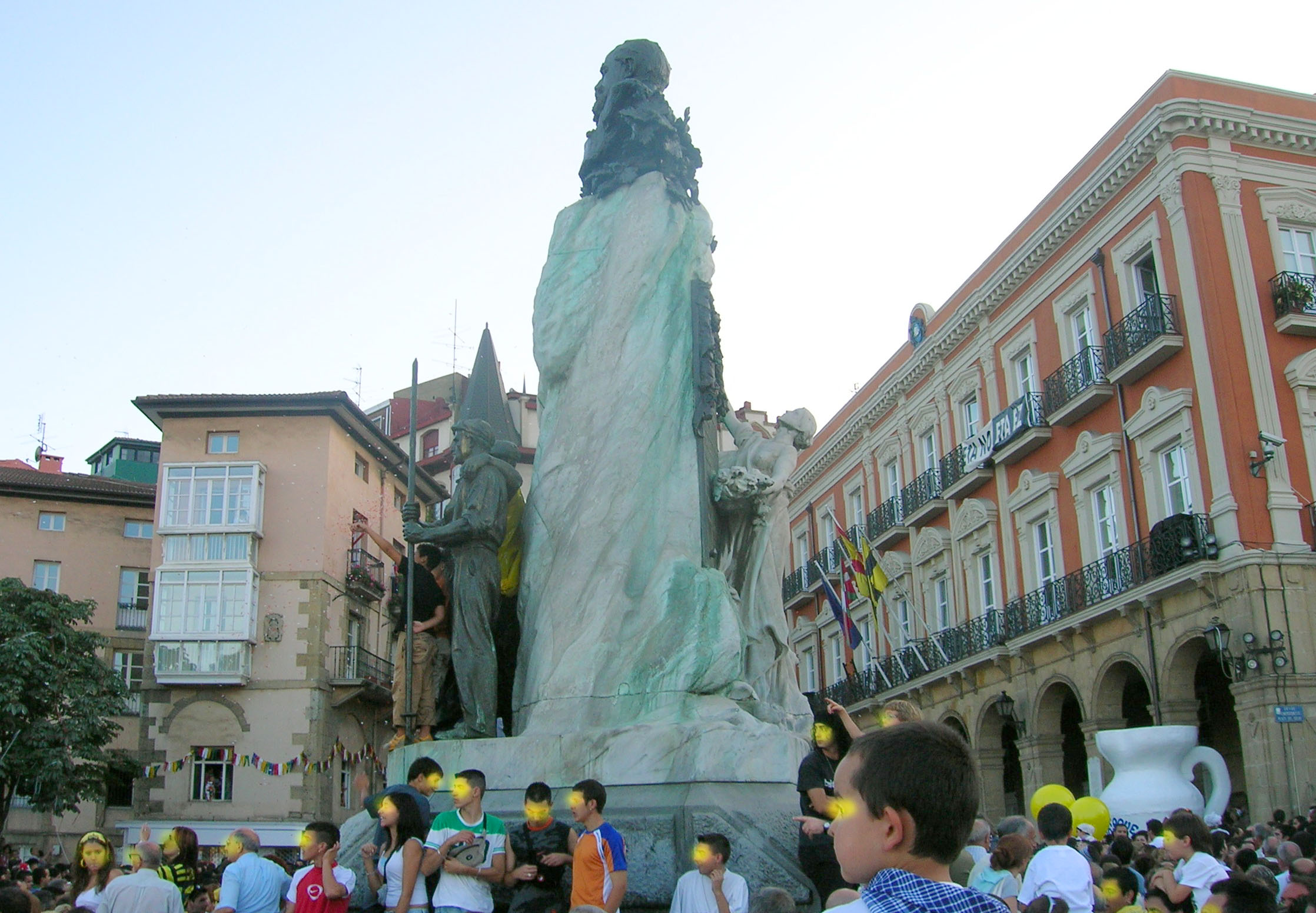 Plaza del Solar in Portugalete, at the start of Saint Roque's fiestas. The building at the left is the former town hall, and the one in the right, the current one.